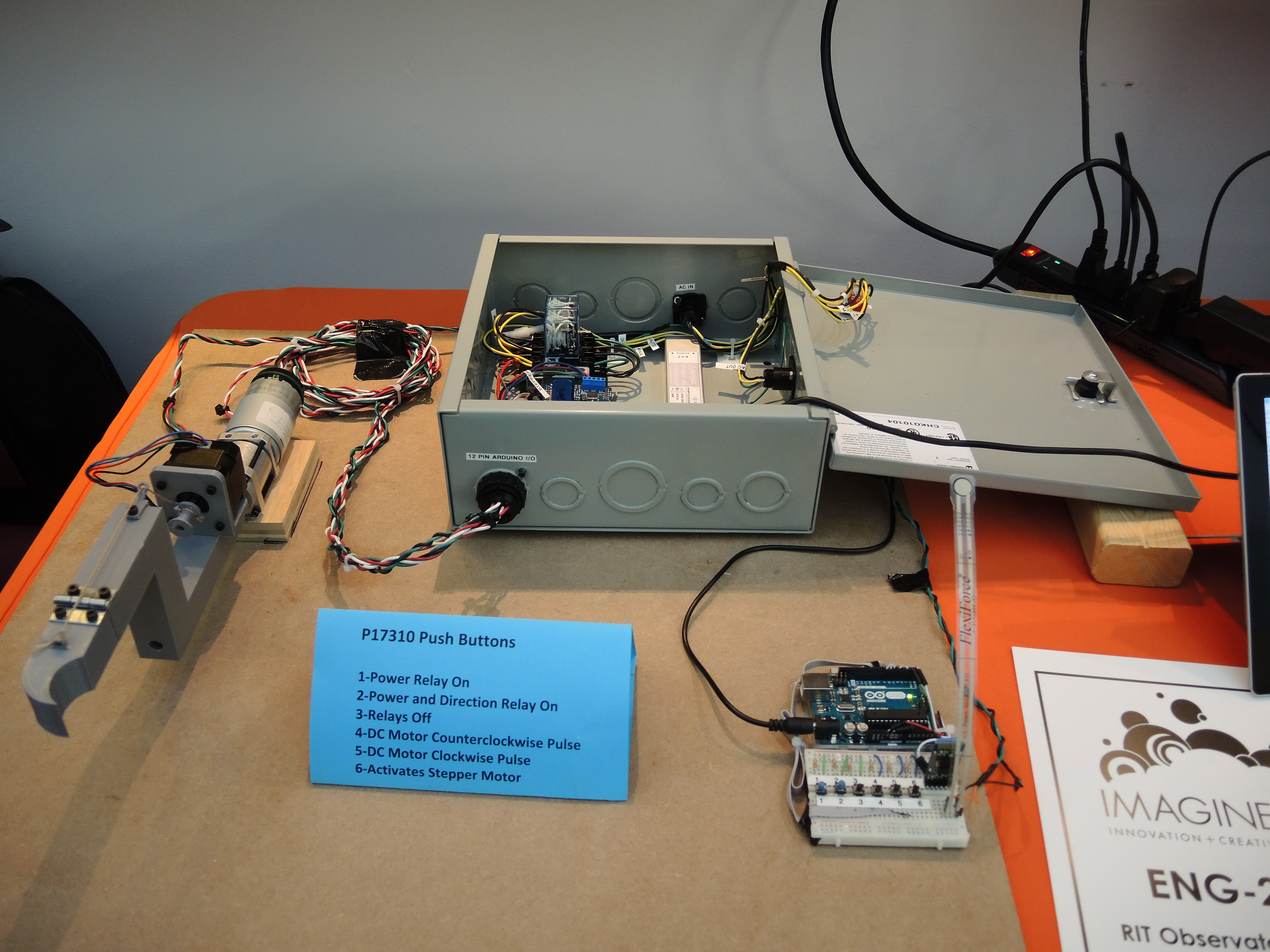 RIT Observatory dome controller student project at Imagine RIT 2017.